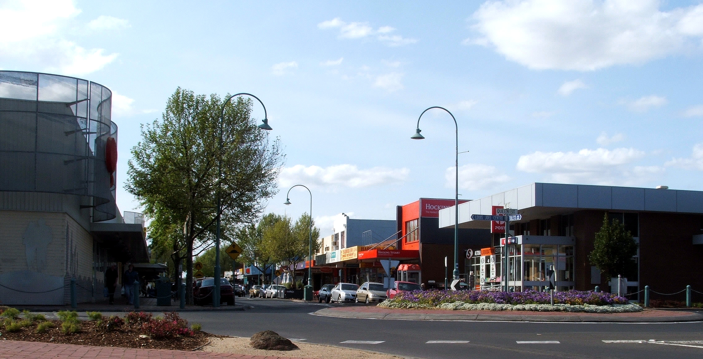 Main street of Altona, on a warm spring day. I, the author of this work, hereby publish it under the following license: Creative Commons Attribution 2.5 License. Manner of attribution Something to the effect of: John Shadbolt, (if used on the Internet, it is OK to link the words to the address)